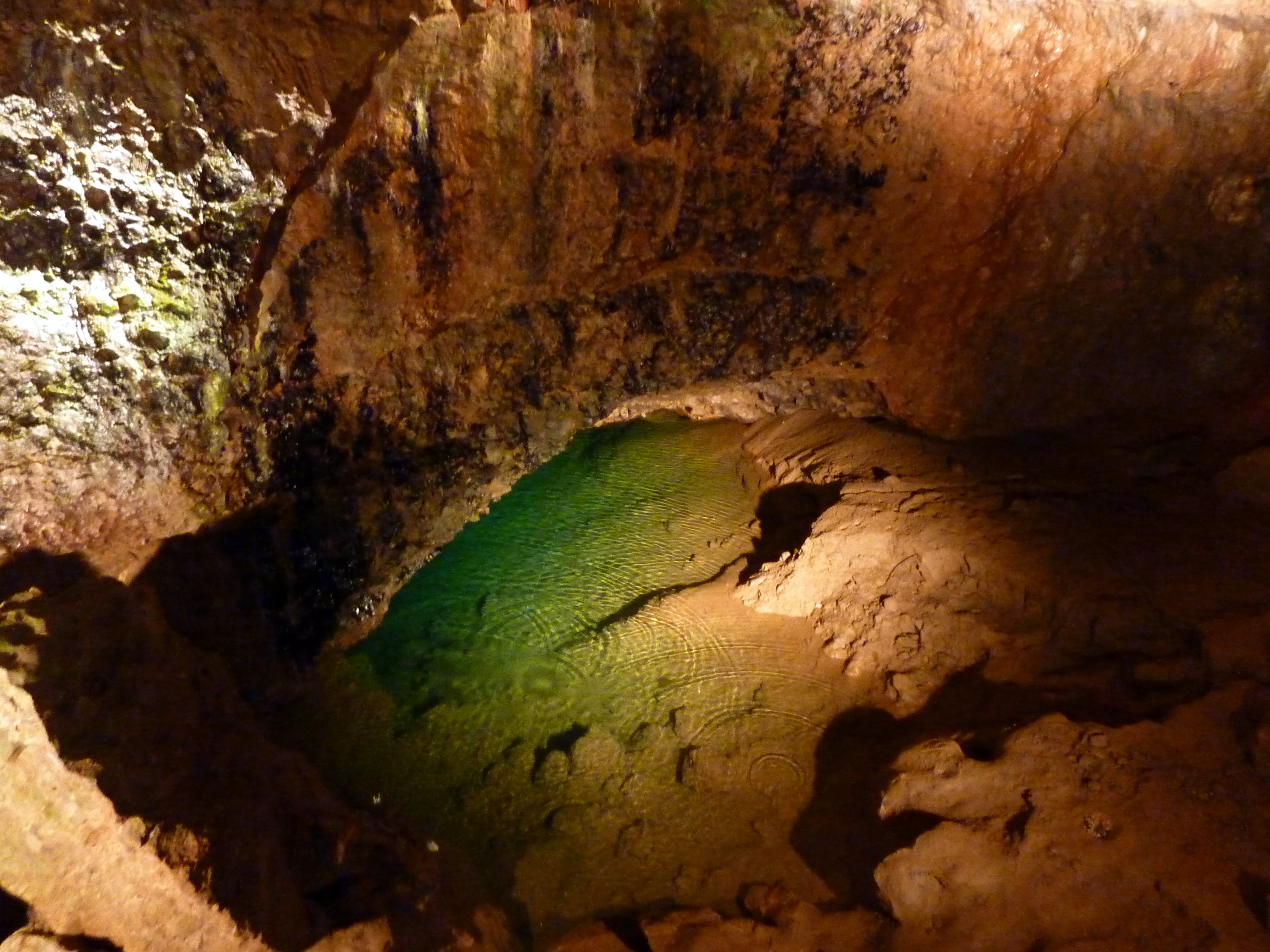 Wookey Hole Cave and underground river